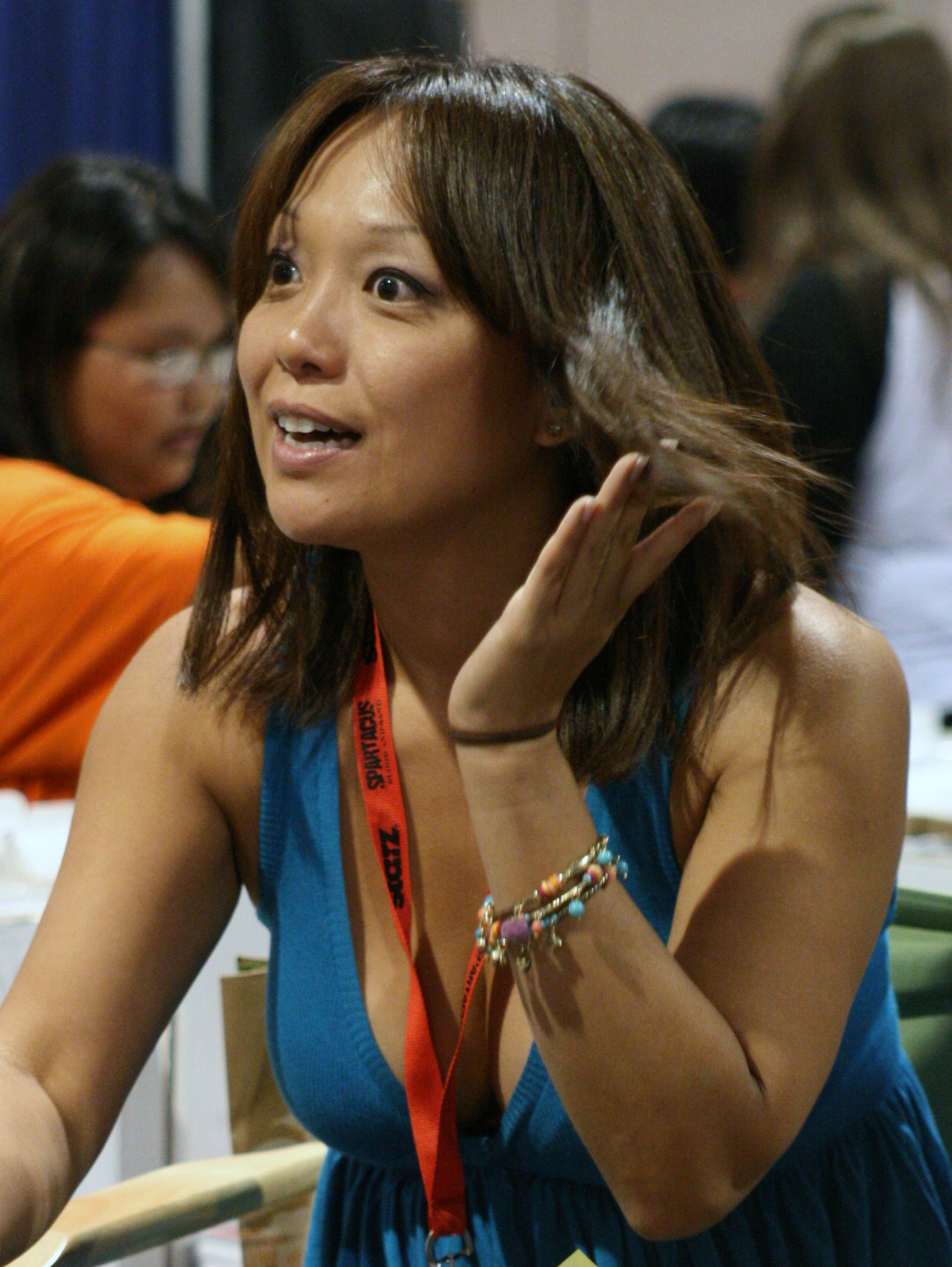 Naoko Mori at the 2009 Comic-Con International in San Diego, California.